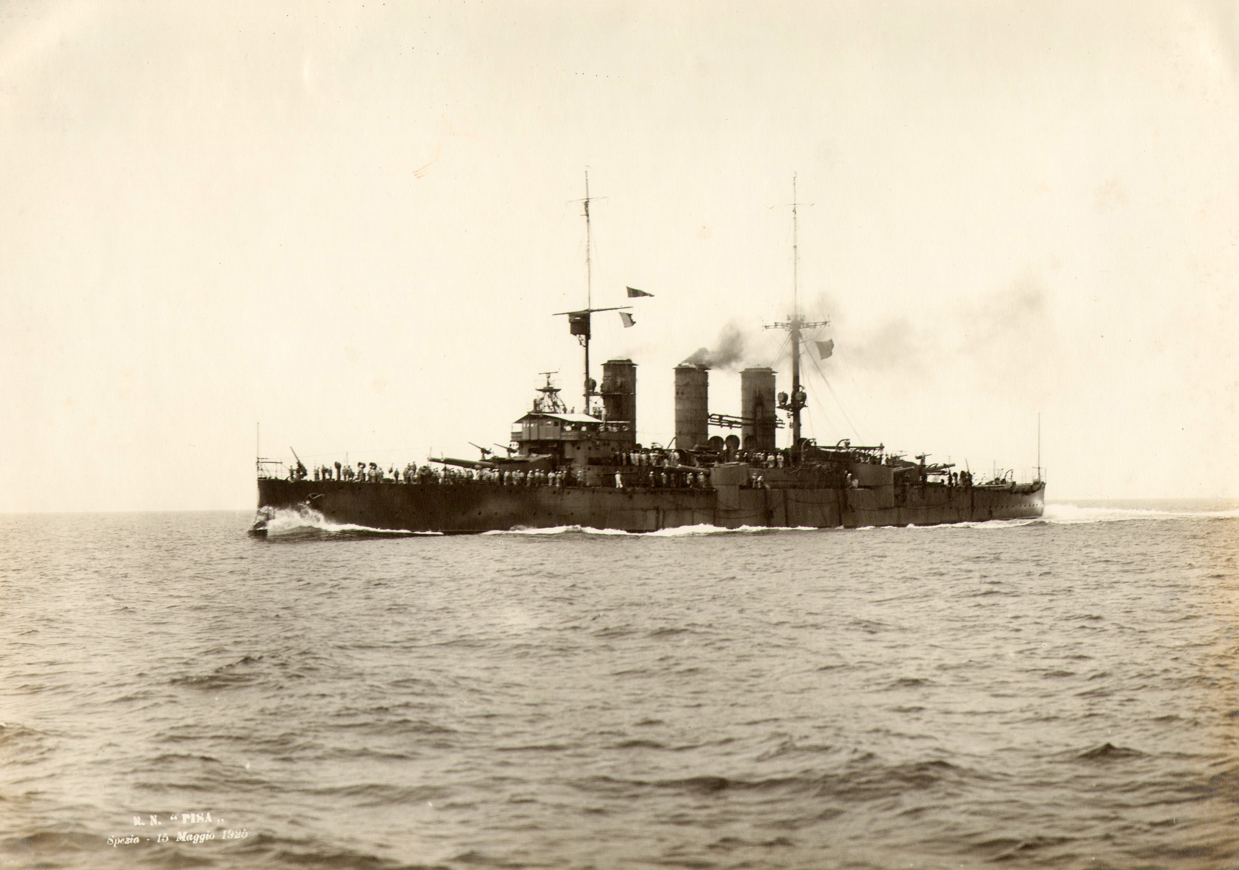 HM Ship Pisa. The original picture, scanned by Emiliano Burzagli, belongs to the Private archive of Burzaghi family, Italy.